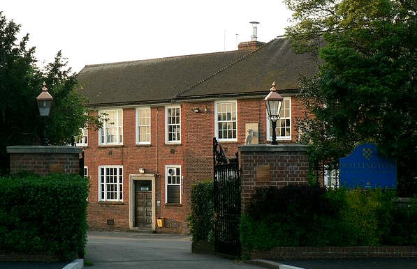 Entrance of Wallington Grammar School Croydon Road